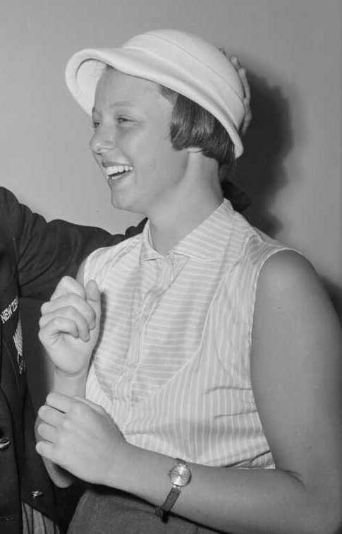 Philippa Gould, Wellington